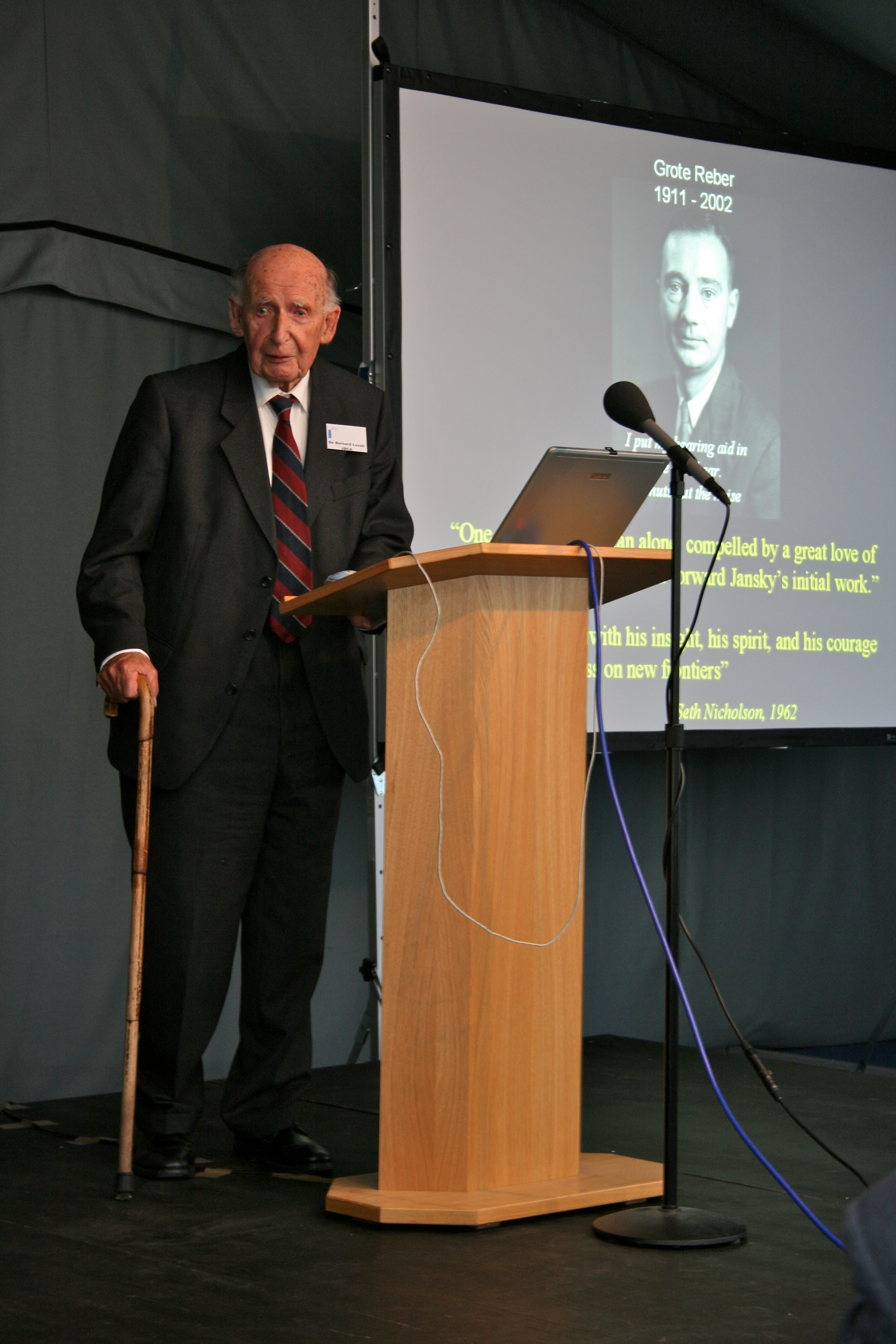 Sir Bernard Lovell, Modern Radio Universe, Jodrell Bank Observatory.